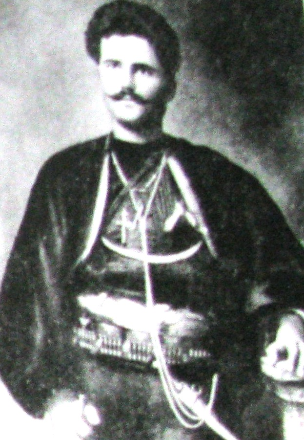 portrait of andart Gono Yotov